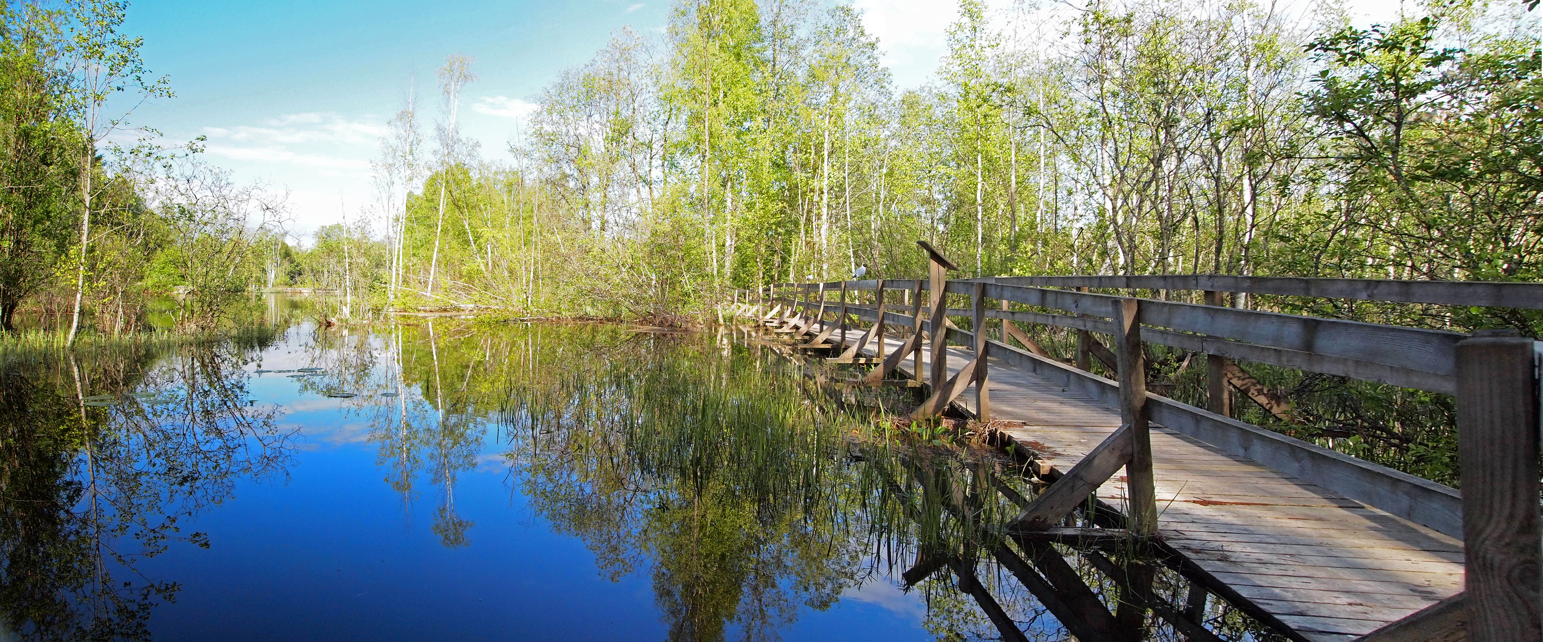 A bridge on nature trail crosses over the river Muuratjoki in Muurame.